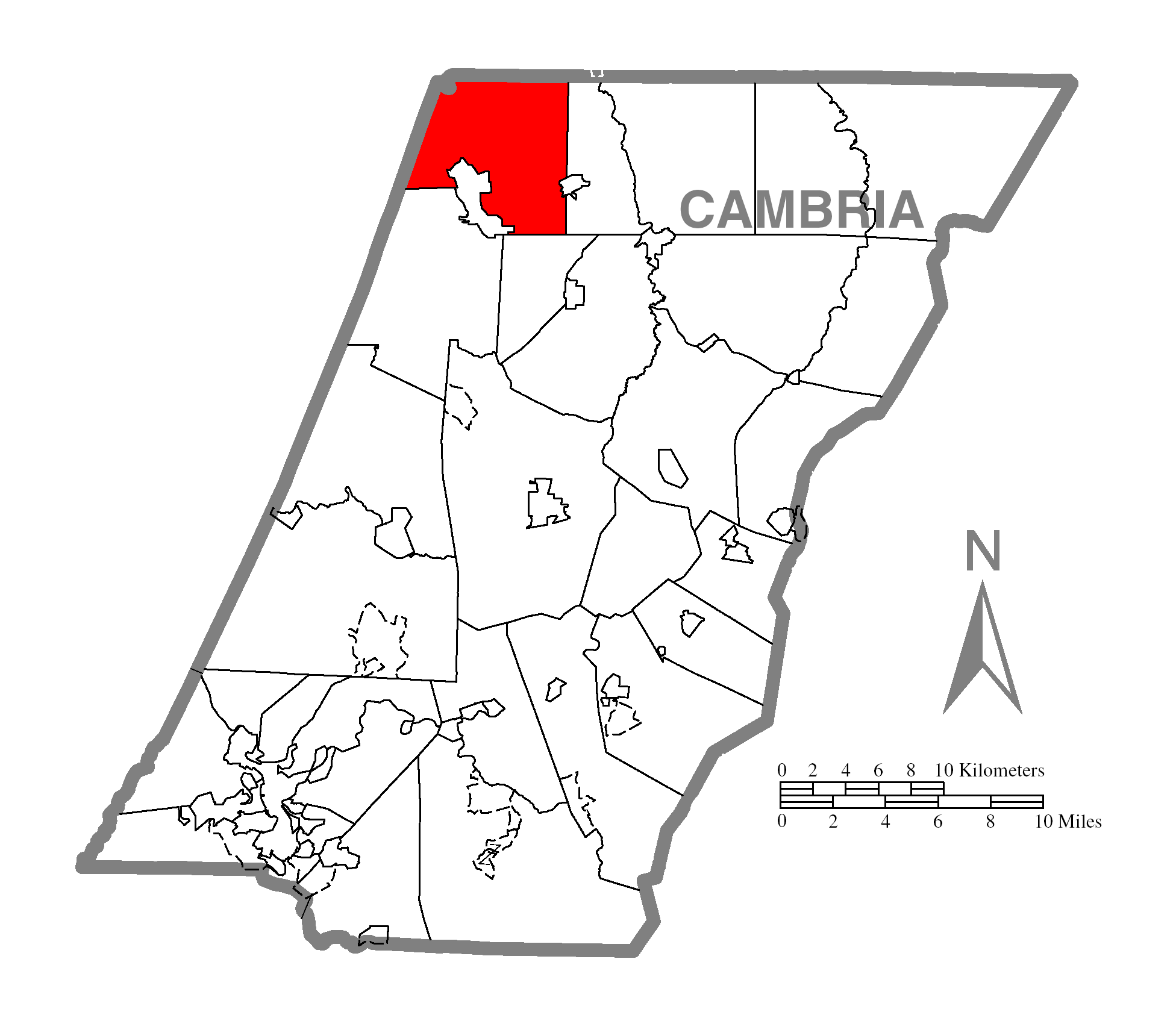 A map of Cambria County showing Susquehanna Township, Pennsylvania (alternate) highlighted on the map.